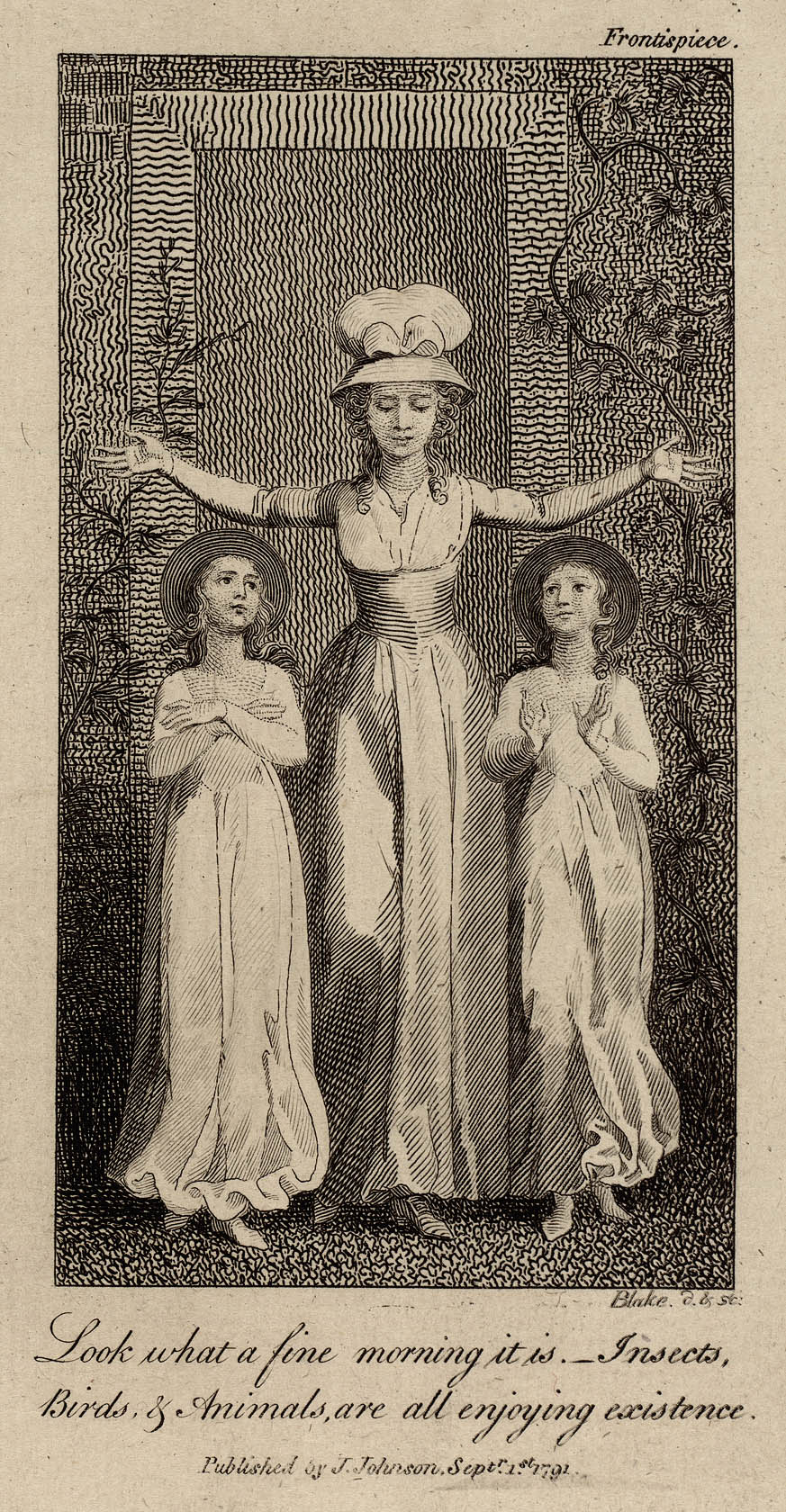 Mary Wollstonecraft Original Stories from copy 1 object 1 - Look what a fine morning it is